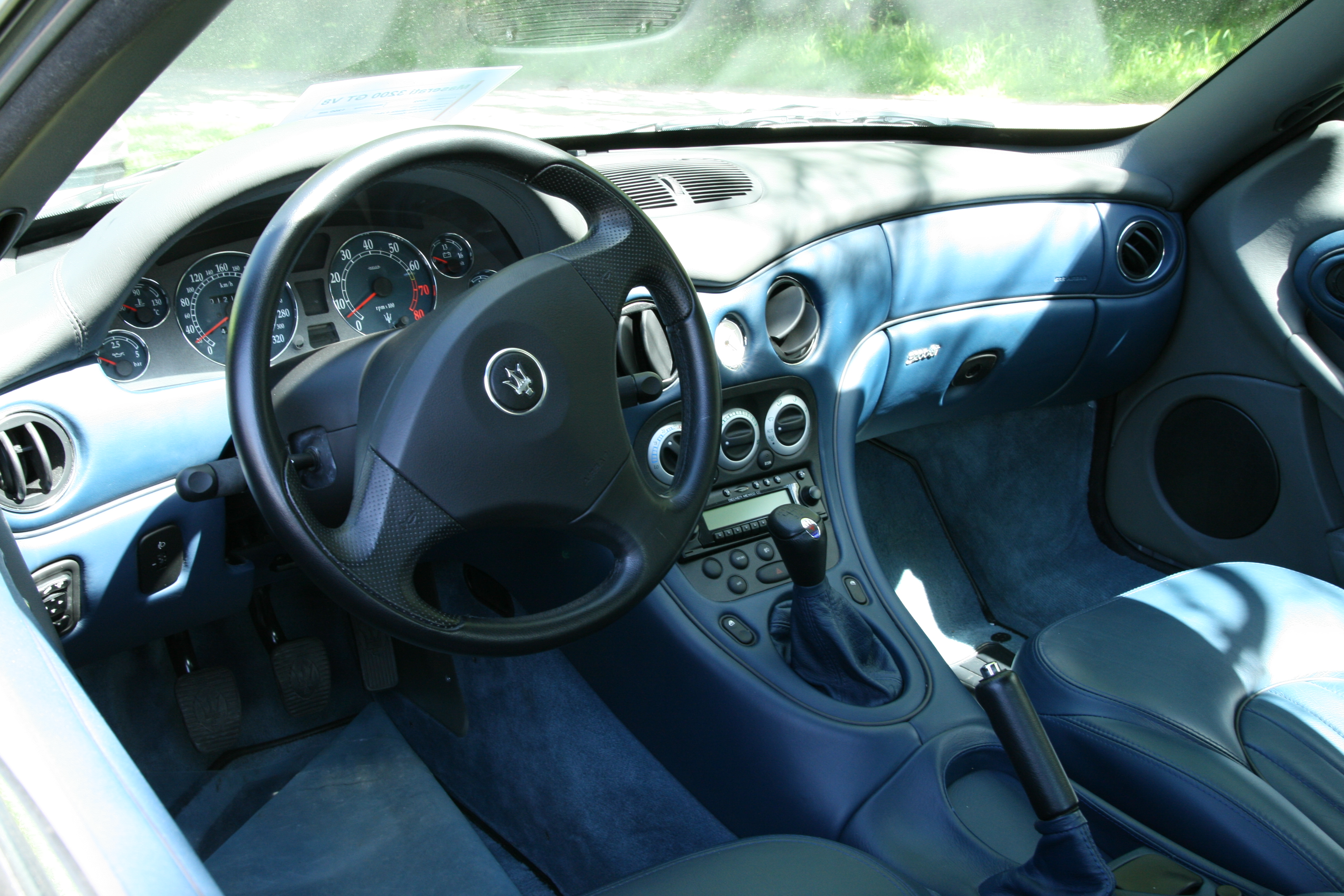 Interior and dashboard of a 2002 Maserati 3200 GT parked at the Sofiero Classic car show at Sofiero castle in Helsingborg, Sweden.